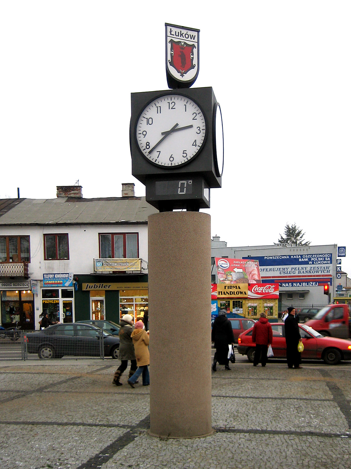 Clock on Square of Solidarity and Freedom in Łuków